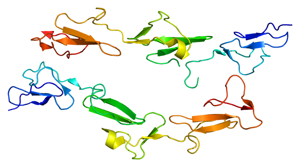 Structure of the EMR2 protein. Based on PyMOL rendering of PDB 2bo2.